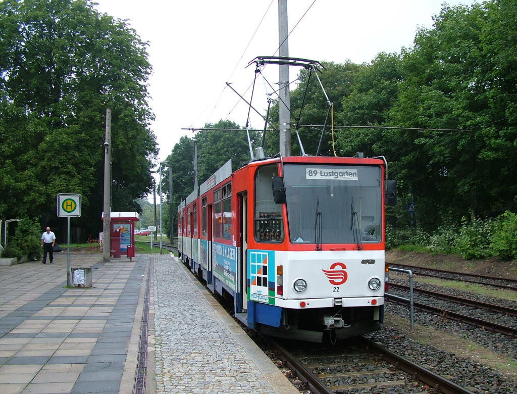 EMU 22 of the Strausberger Eisenbahn wating at the Station Strausberg Vorstadt (near Berlin, Germany), 2004-08-14